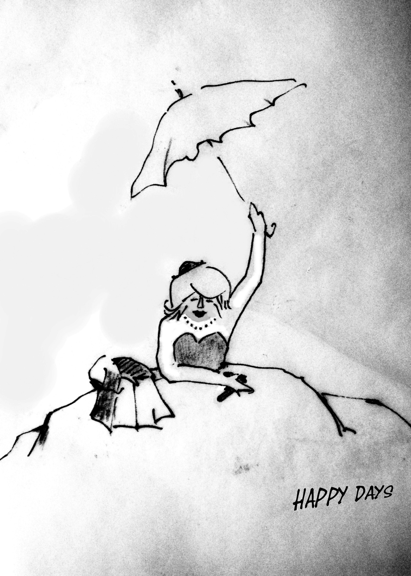 Sketch of scene in Happy Days by Samuel Beckett